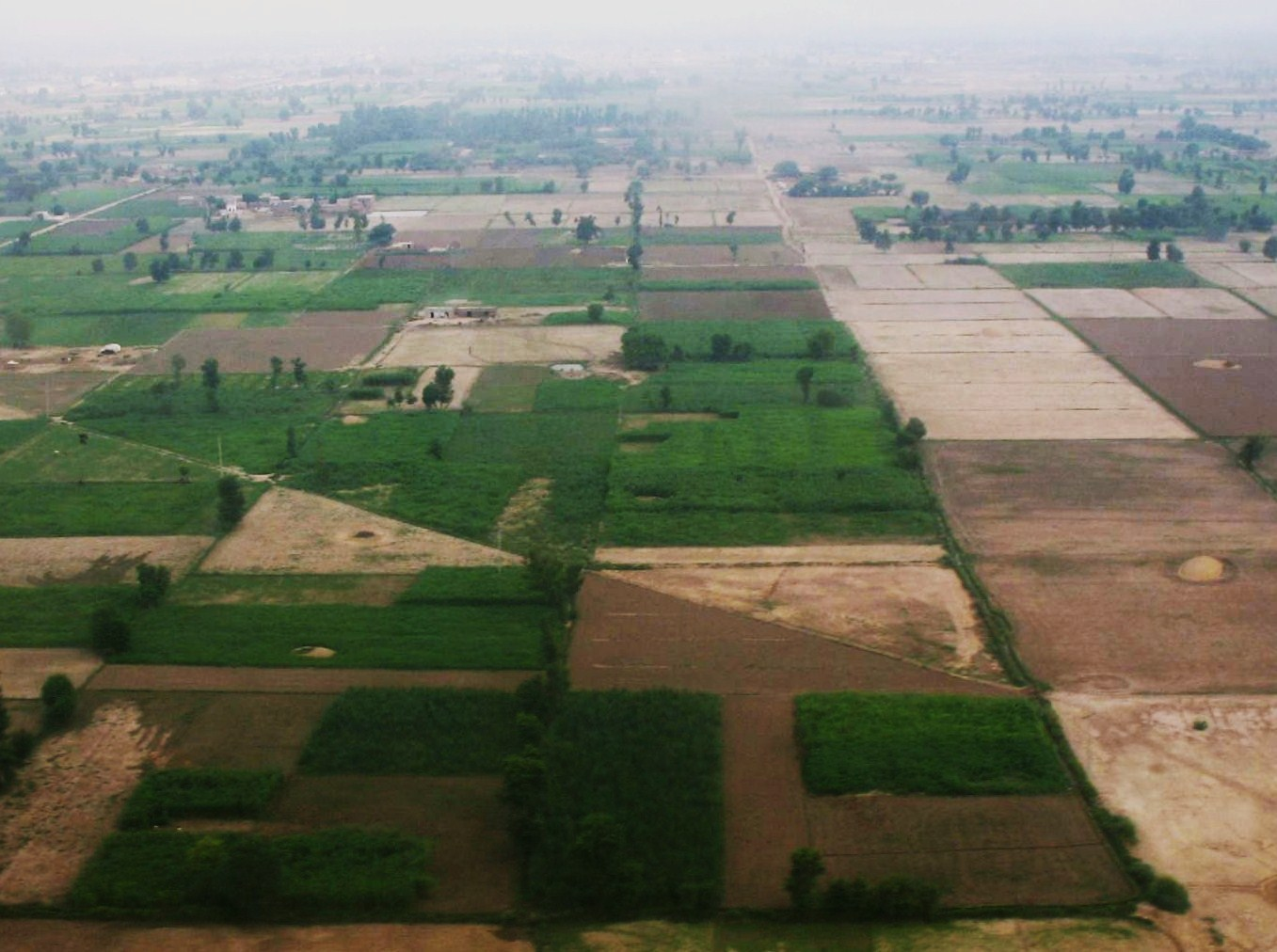 Fields whilst landing into LYP, Pakistan